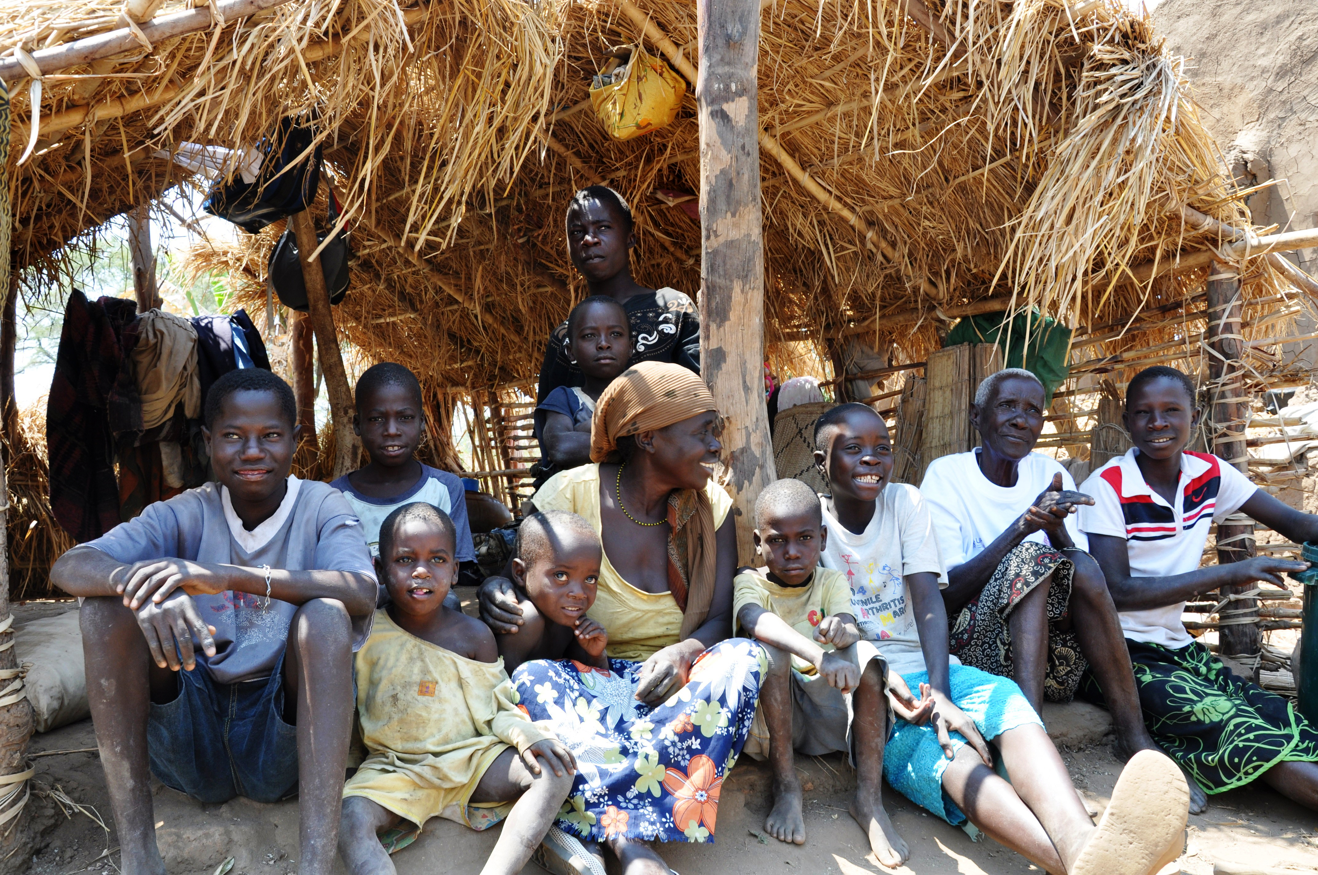 Edicas’ mud hut was one of 1,557 houses that collapsed in Karonga, north Malawi, following two earthquakes in December 2009.